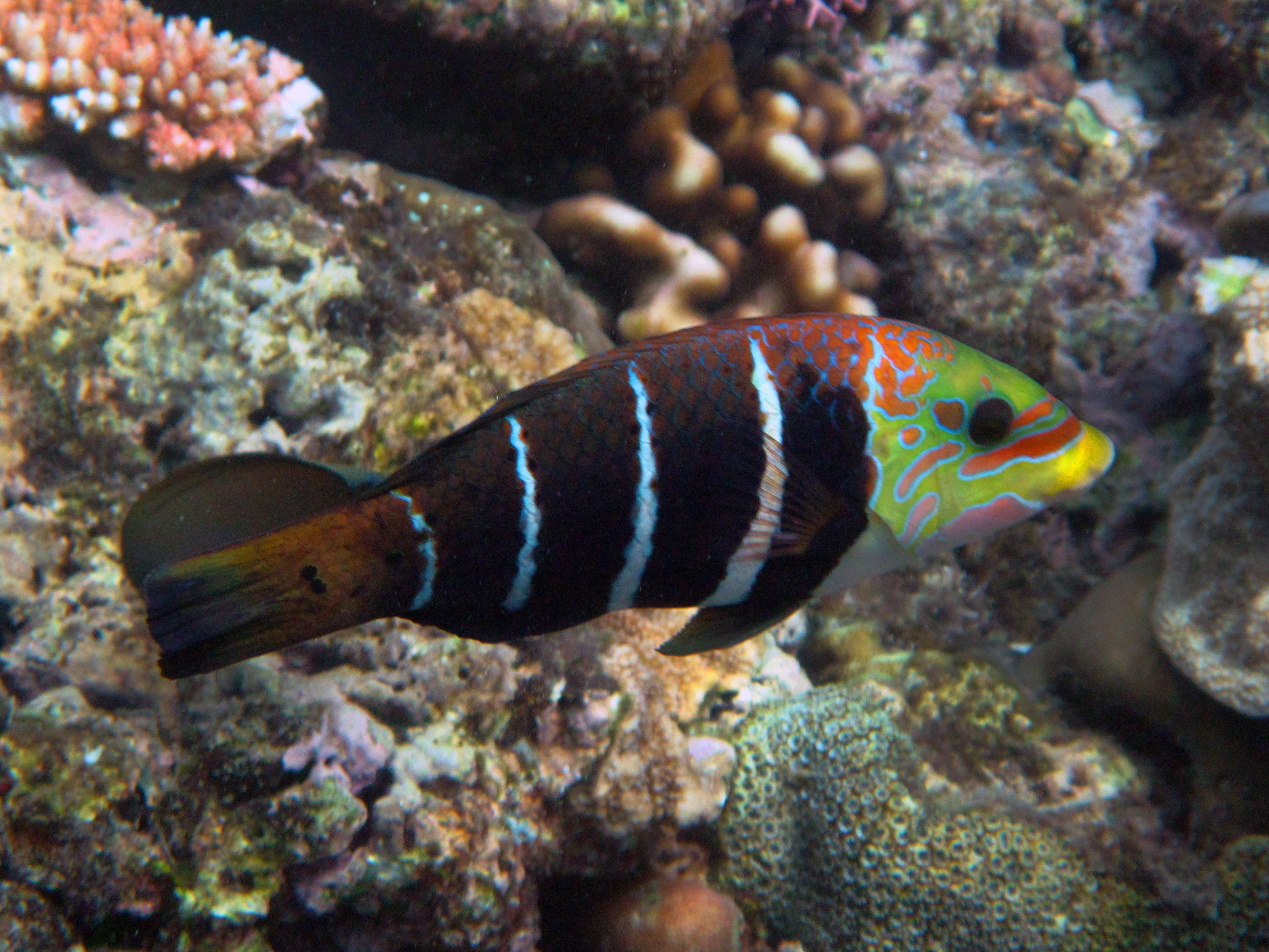 An underwater shot of the Great Barrier Reef in the Coral Sea off the coast of Australia.